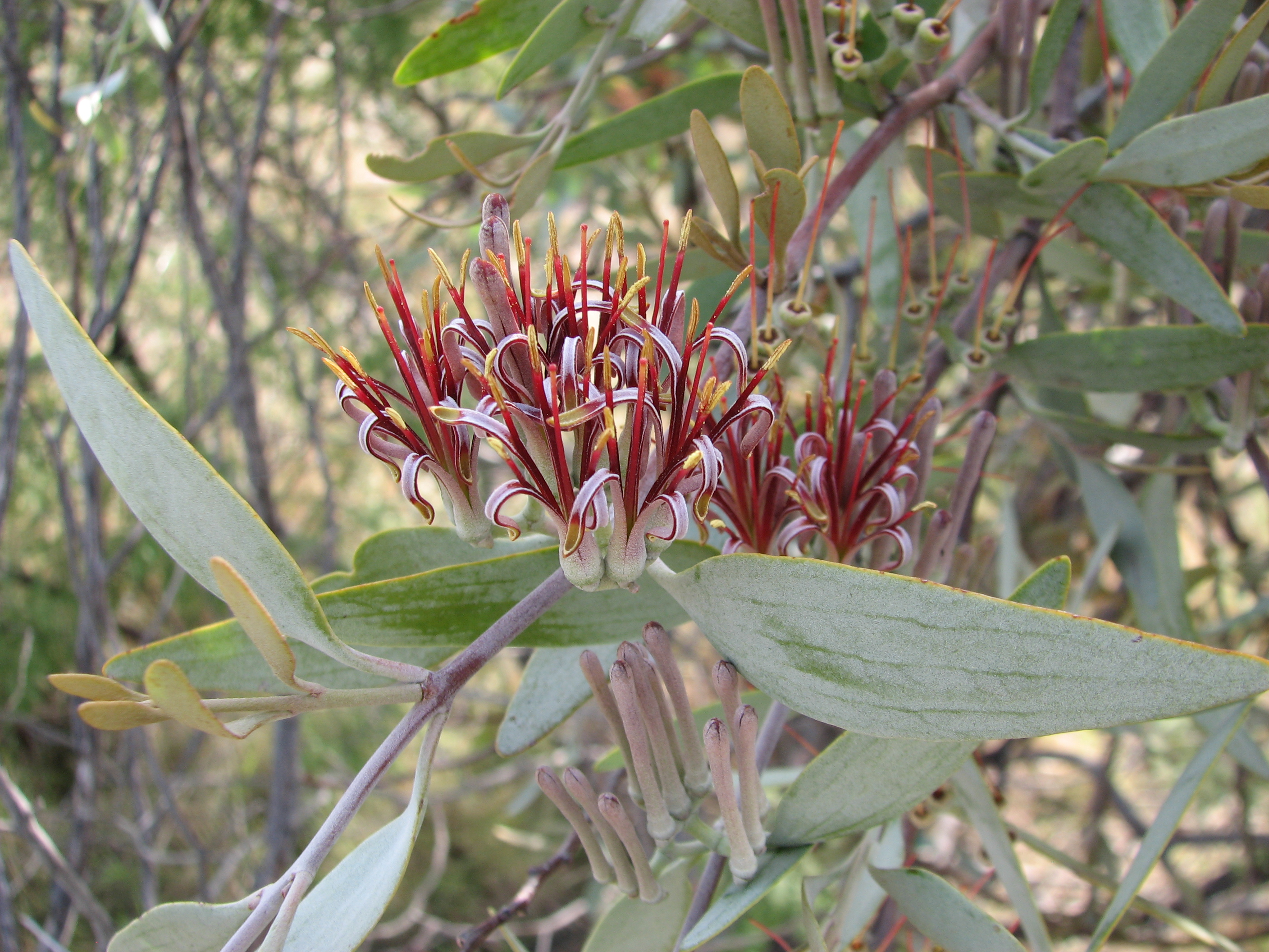 Amyema quandang, Mount Hope, Victoria, Australia